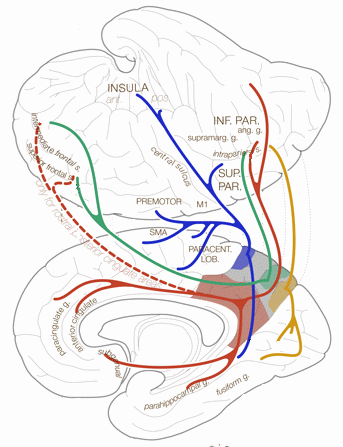 Subdivisions of precuneus and posterior cingulate in the human based on functional connectivity. This has had extraneous detail removed to make it more suitable for use in the wikipedia article on the precuneus.